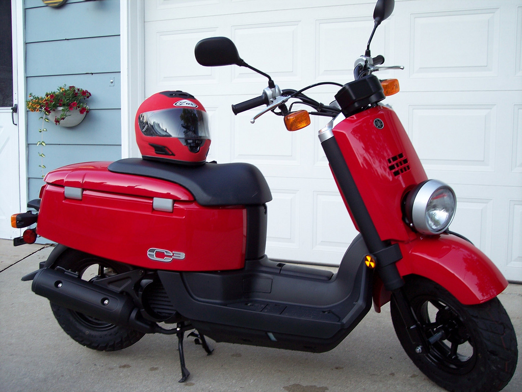 2008 Red Yamaha C3.